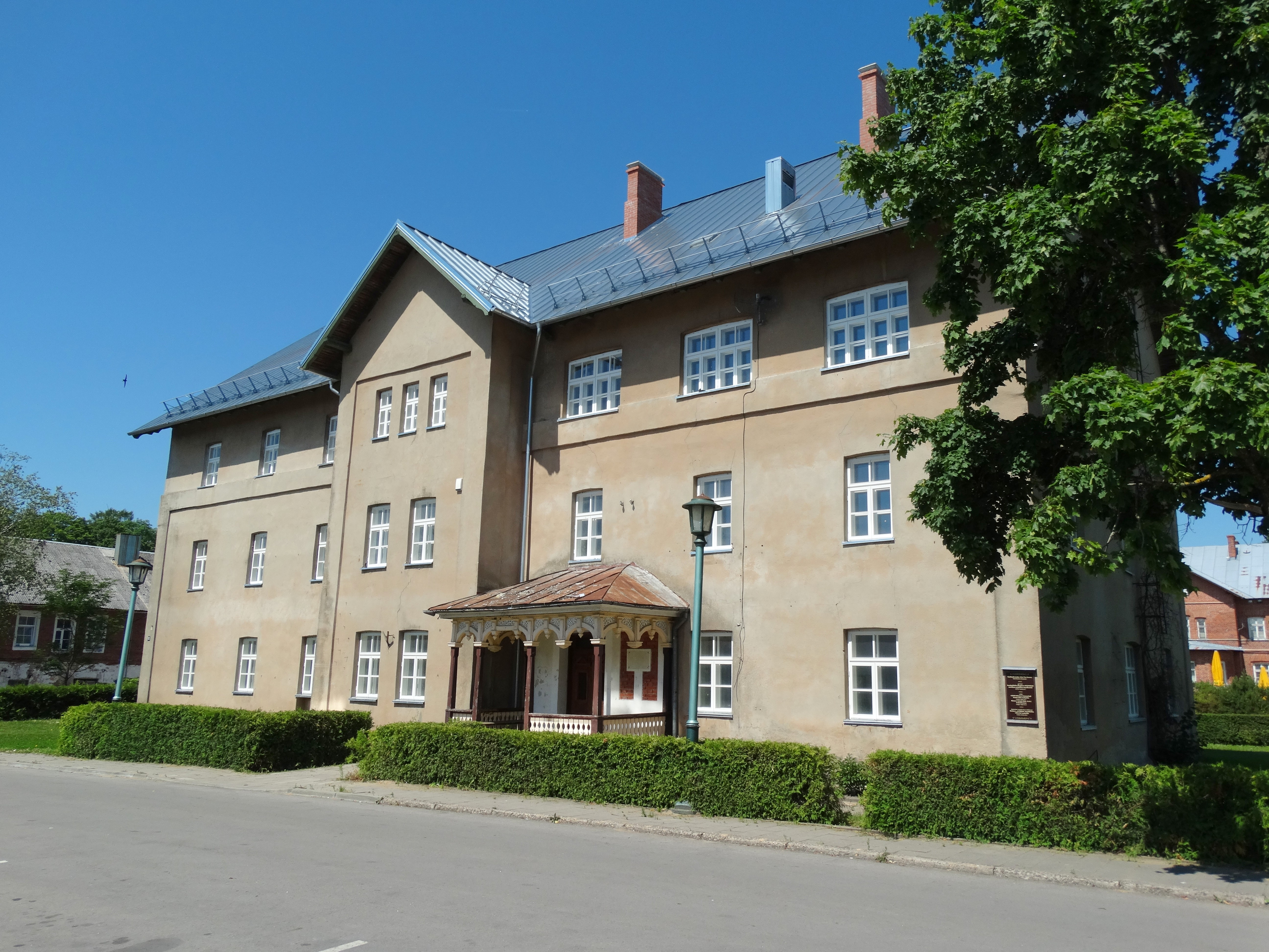 Dormitory, former manor , Rietavas, Lithuania